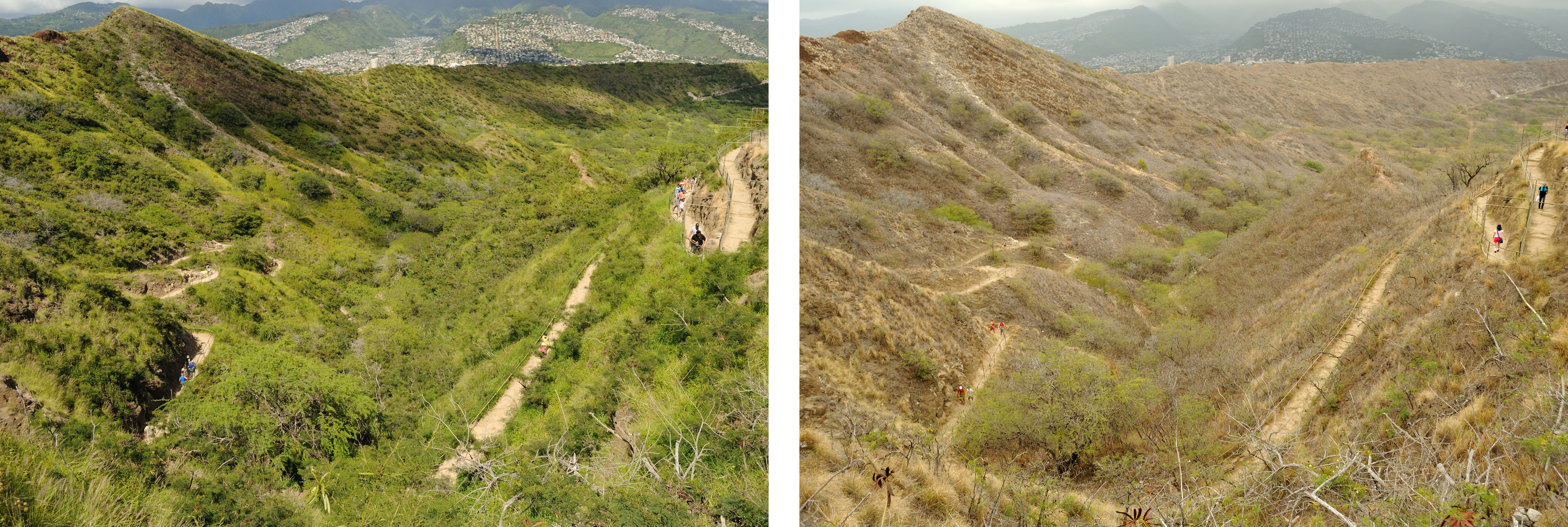 Diamond Head Trail — a comparison showing how the landscape of Diamond Head changes during the wet and dry seasons. The originals are here: Wet: Dry